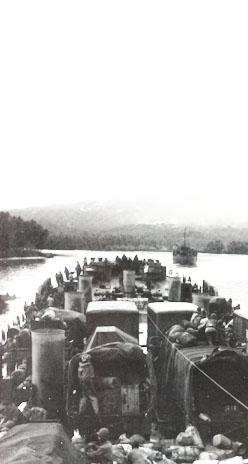 The approach to Rendova Harbor as seen from the deck of an LST carrying Marines ashore. It sails through the narrow Renard Entrance with Rendova Peak in the background and the Lever Brothers' landing at the right just around the bend.